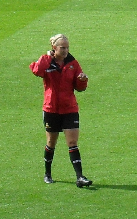 Doncaster Rovers Belles LFC footballer and captain Katie Holtham before a WSL game against Birmingham City LFC at Keepmoat Stadium